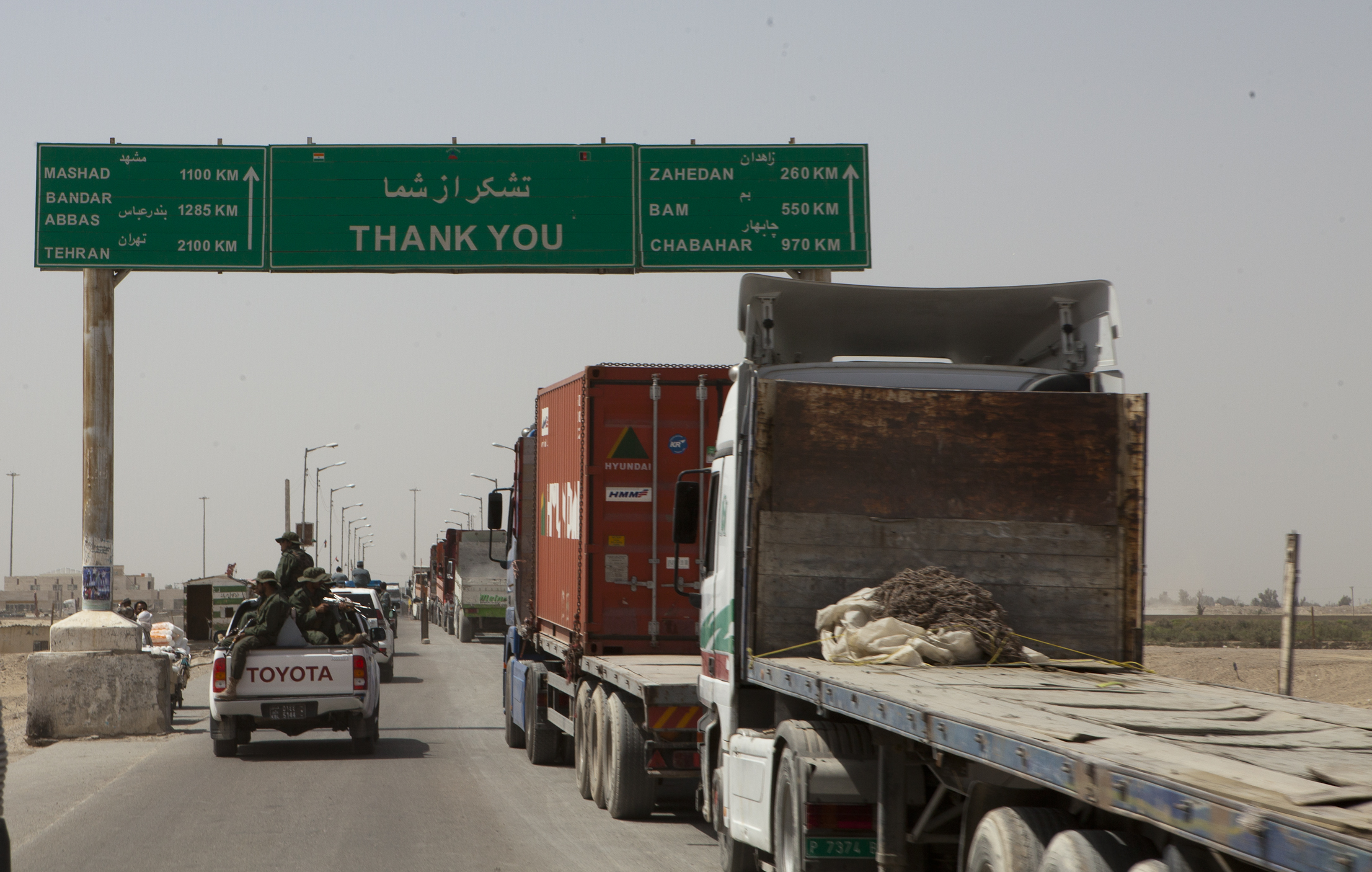 Trucks wait to cross the Afghanistan-Iran border in Zaranj, Afghanistan, May 10, 2011. The crossing is part of a busy trade route between Central Asia and the Middle East.